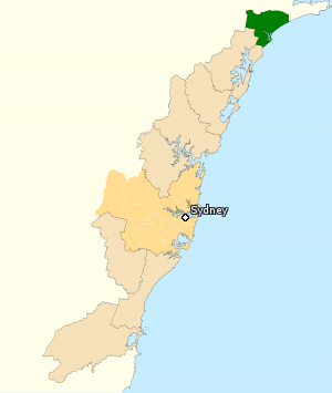 This image incorporates data that is: © Commonwealth of Australia (Australian Electoral Commission) 2009 Division of Newcastle 2010